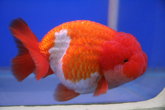 A goldfish of the lionchu breed shown in the competition at the 20th Pramong Nomklao fish show event at the Future Park Rangsit, Thailand, in July 2008. This particular fish is the first prize winner of the lionchu category.